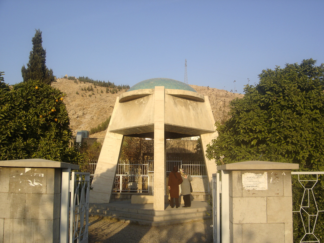 Tomb of Jalaluddin Shah Shuja Muzafari, son of Amir Mubarezeddin, founder of the Muzaffarid dynasty. 14th century. Shiraz, Iran.